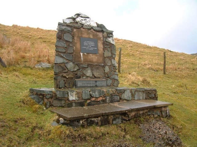 Monument to Owain Glyndwr's Victory at Hyddgen Memorial to the battle of Hyddgen, won by Owain Glyndwr in 1401.